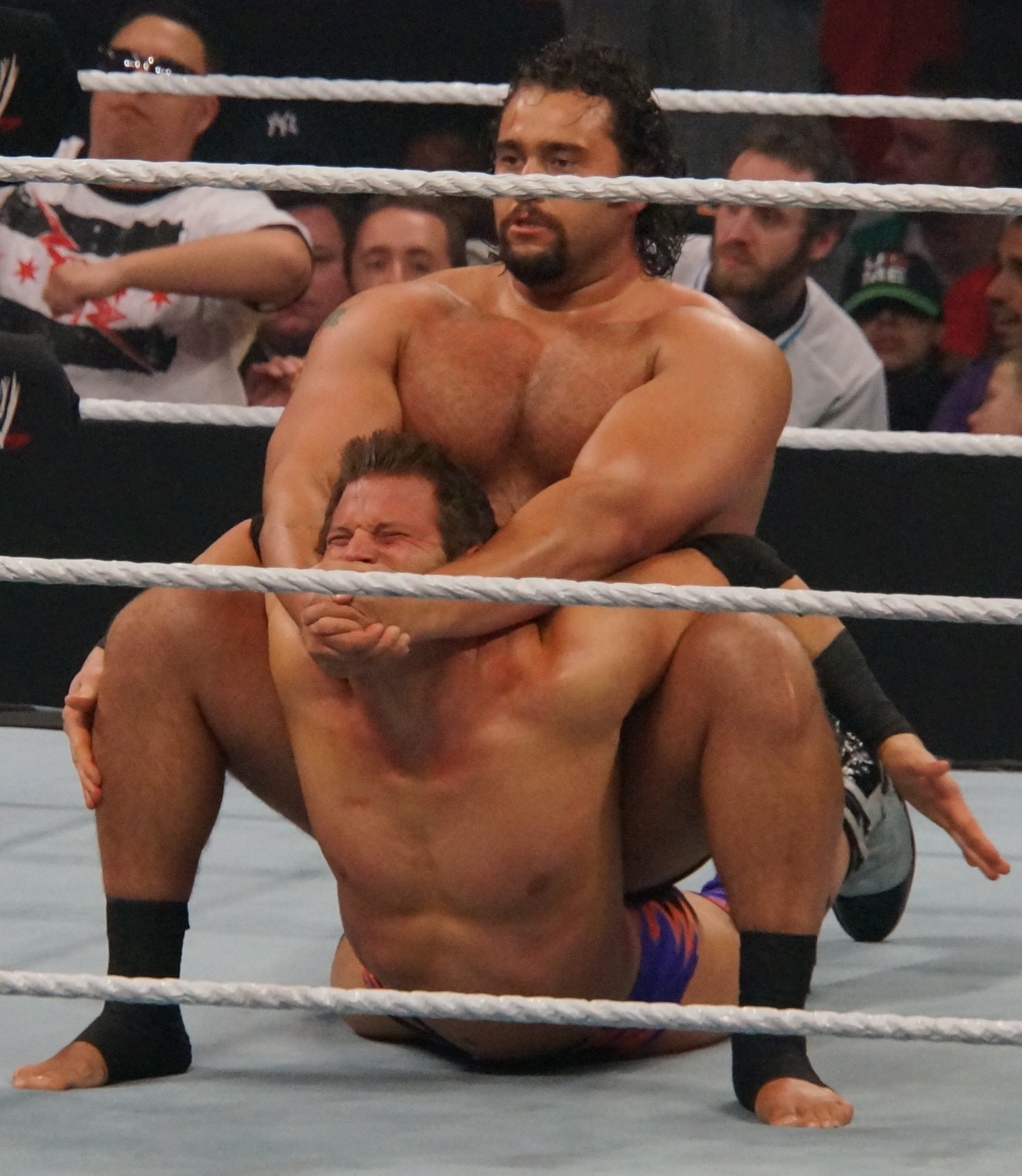 Alexander Rousev applying a Camel Clutch against Zack Ryder